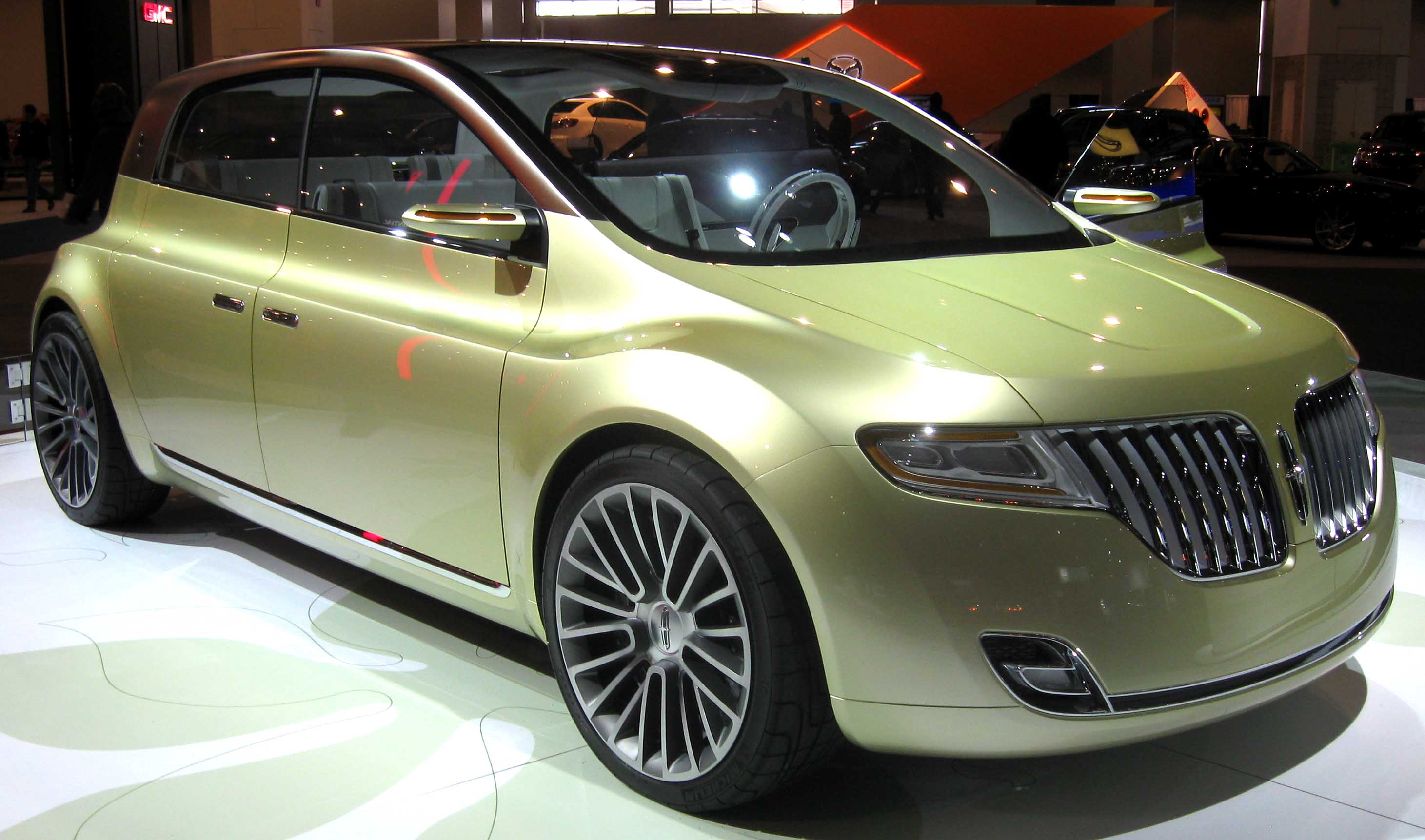 Lincoln C photographed at the 2009 Washington DC Auto Show.